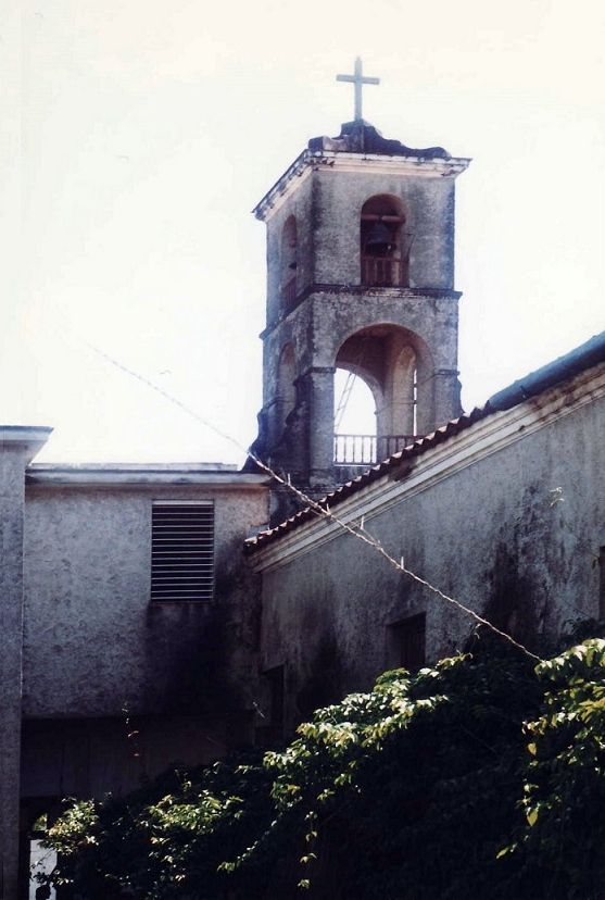 The San José de Jatibonico Church bell tower, in Jatibonico, Cuba.